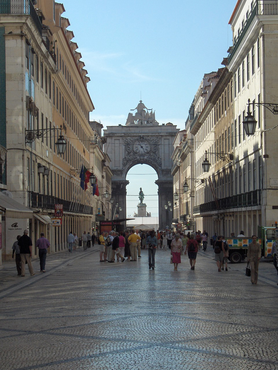 Arc and statue, seen from Augusta Street; Lisbon, Portugal